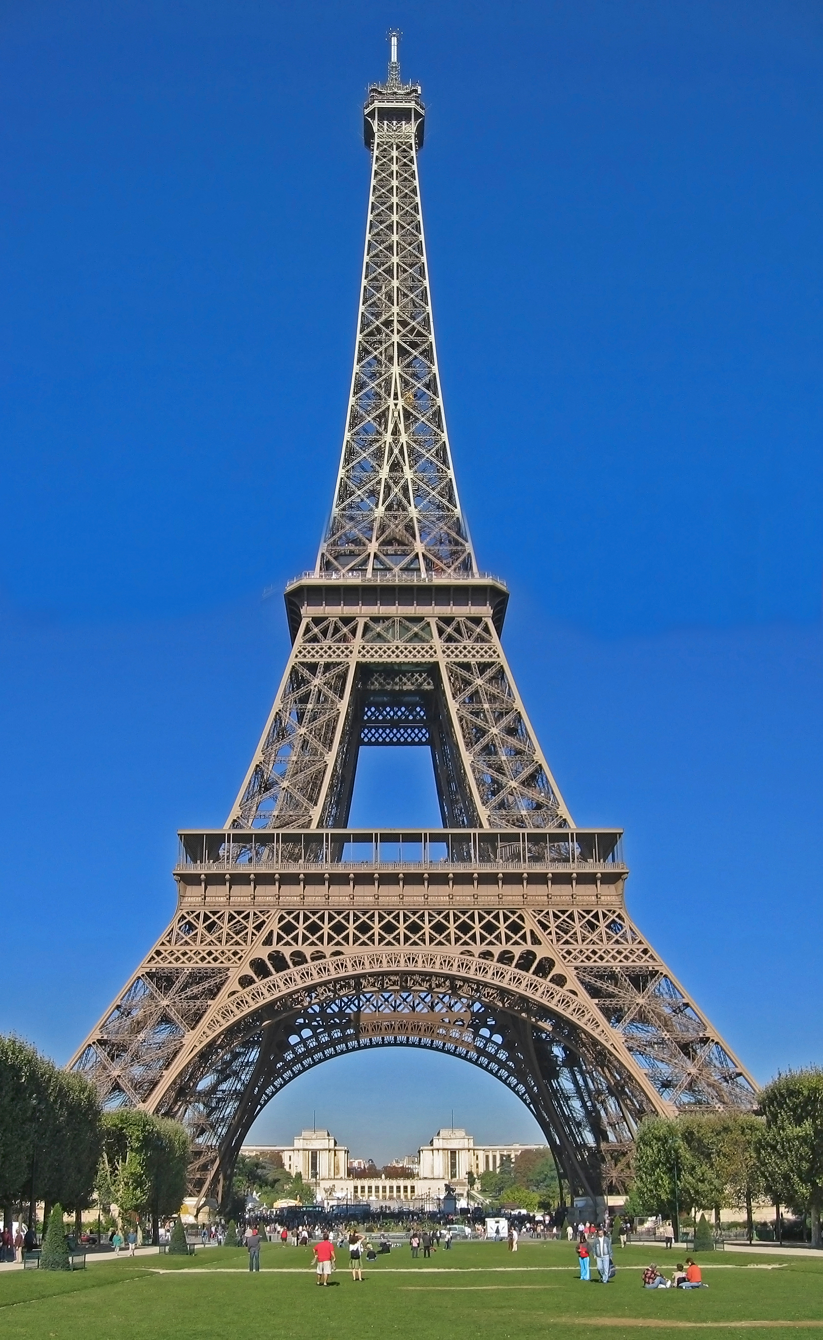 Eiffel Tower from Champ-de-Mars